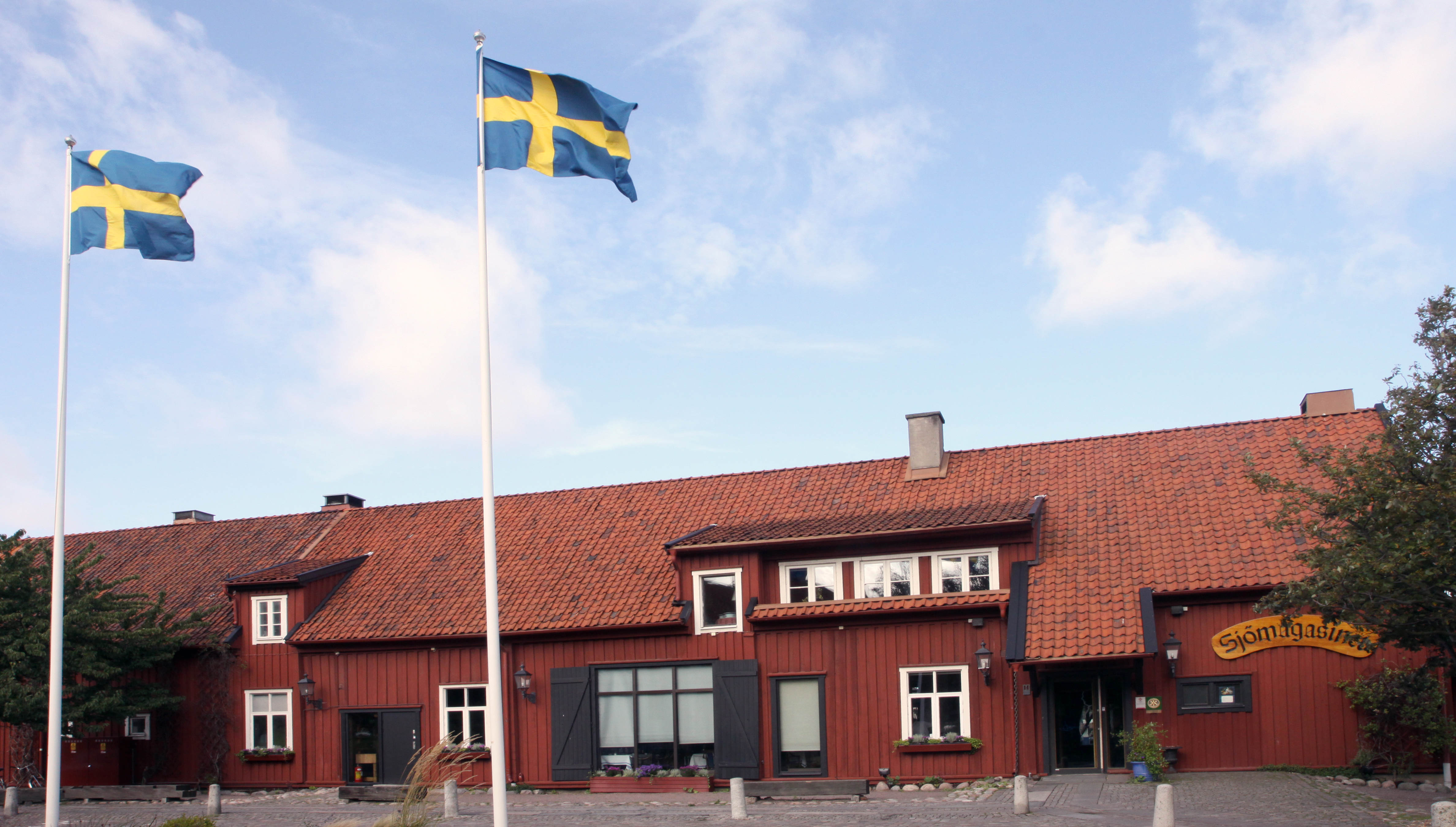 The front and entrance of restaurant Sjömagasinet in Gothenburg